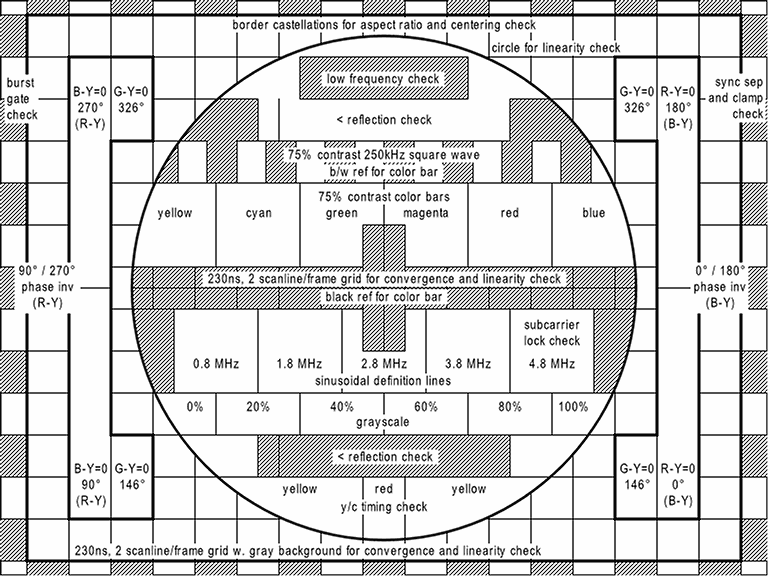 A diagram of the signals featured in a PM5544 type test pattern, created given published specifications.